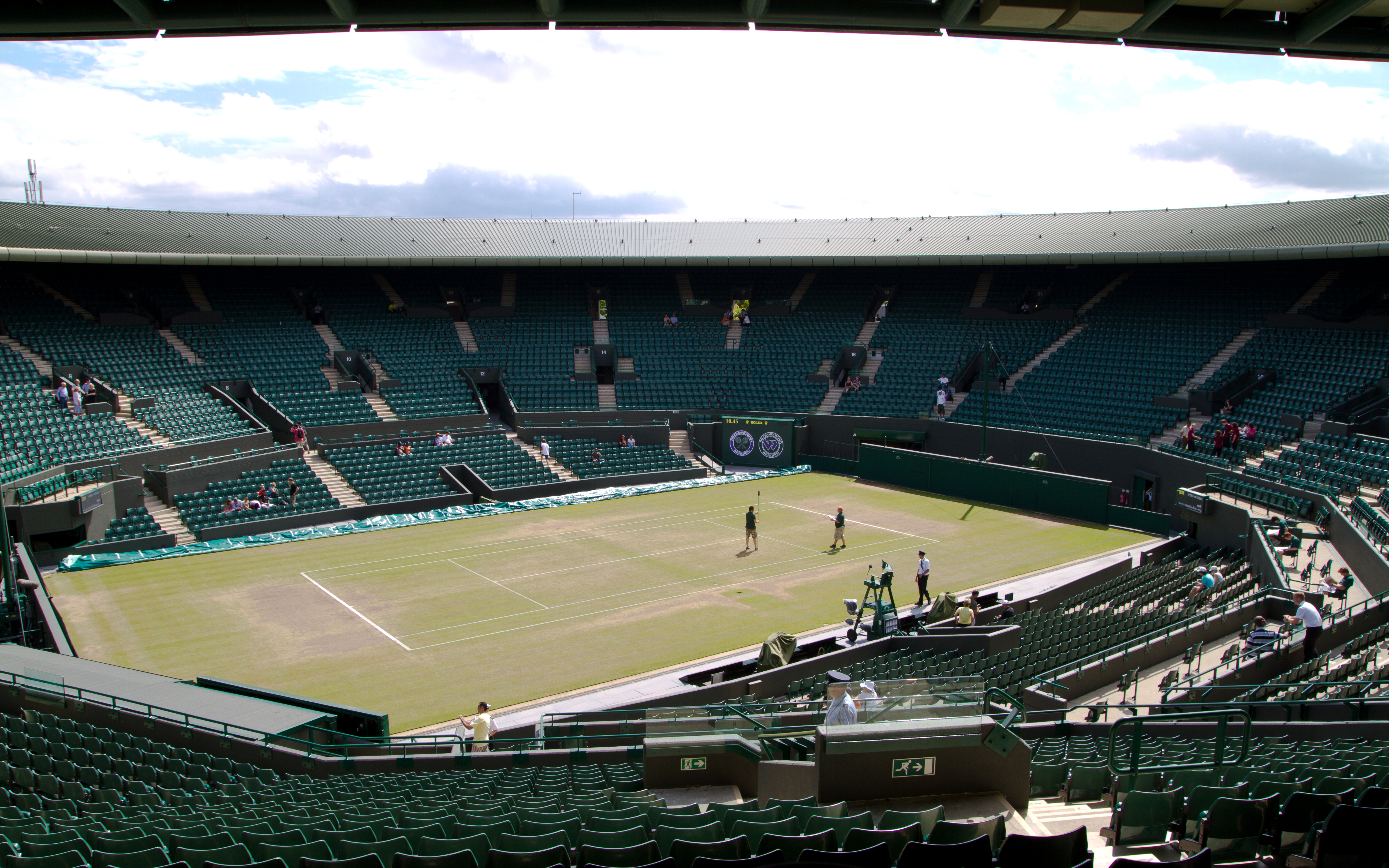 Wimbledon Tennis